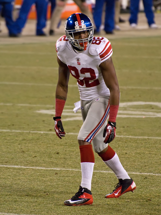 New York Giants vs. Green Bay Packers in the NFC Divisional Playoff Game at Lambeau Field on January 15, 2012. Photo by Mike Morbeck.